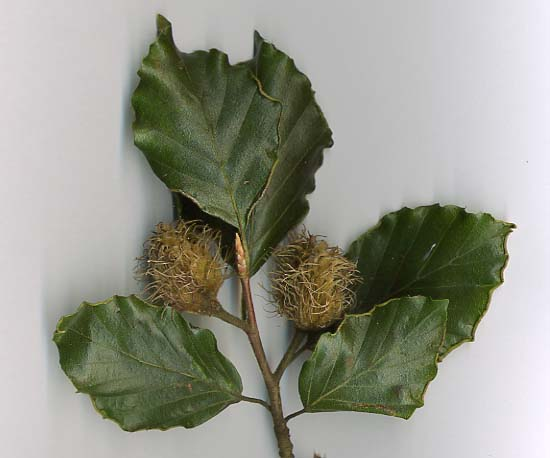 European beech shoot with nuts